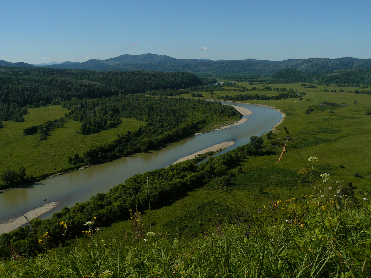 Bird's view at the Lebed river in Eastern Altai.